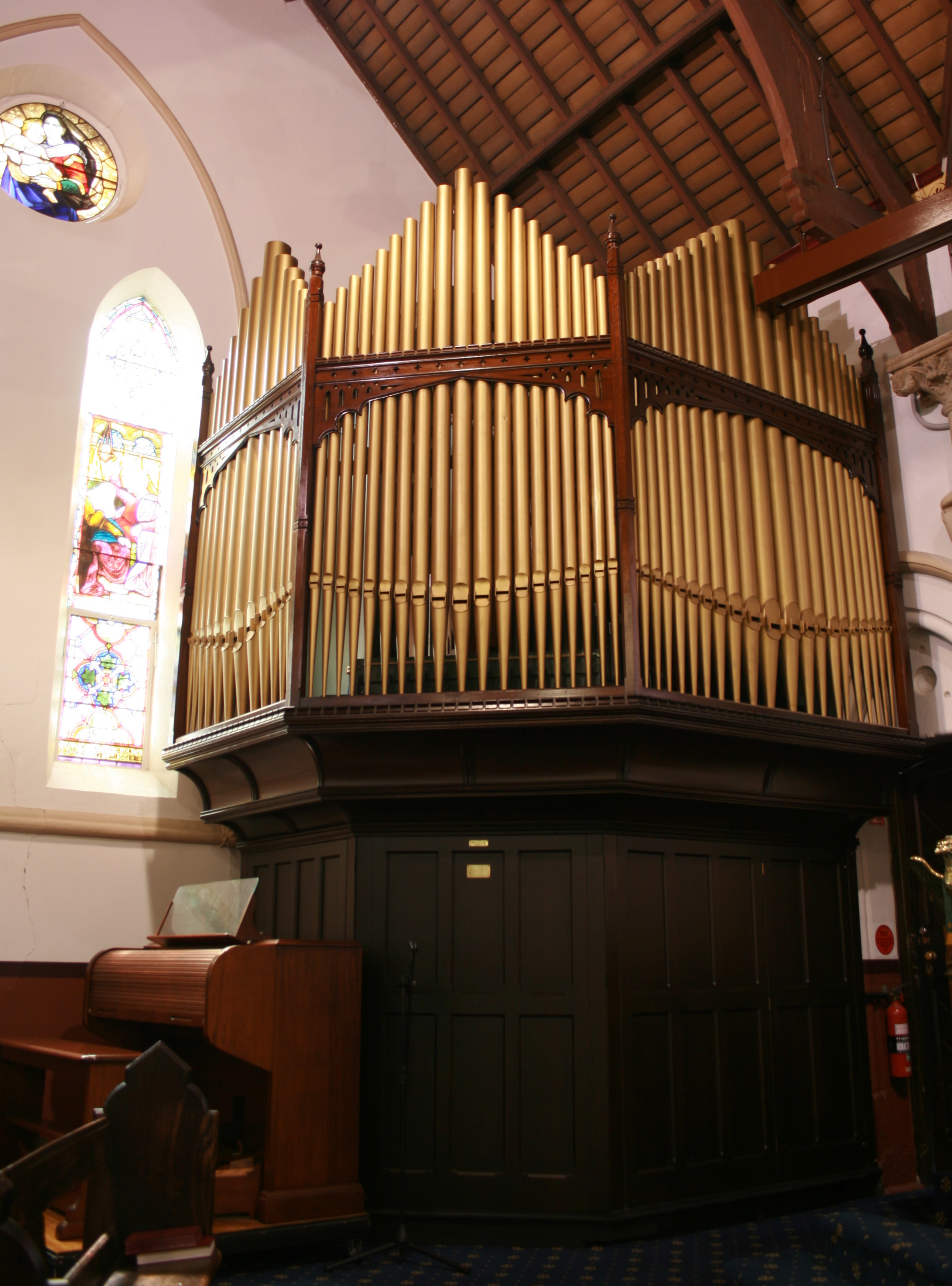 The organ at St. John the Baptist's Anglican Church, Ashfield, NSW, Australia.